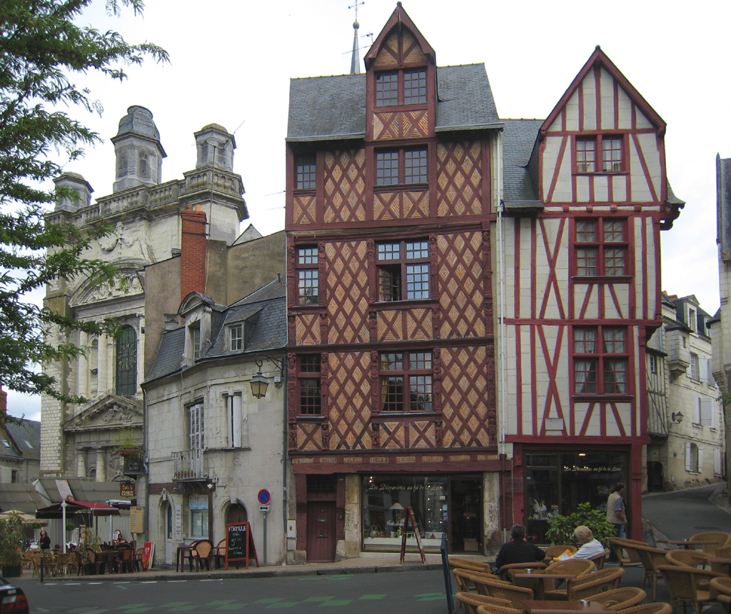 Town of Saumur in France, old town with the church of St. Saint-Pierre